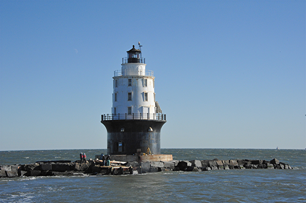 DELAWARE — The U.S. Army Corps of Engineers' Philadelphia District recently completed repairs to the Harbor of Refuge breakwater. The breakwater and the historic lighthouse that sit on top are listed in the National Register of Historic Place. The $2.6 million repair project involved placing 91 capstones, filling voids and pouring concrete. Reilly Construction Inc. and R.E. Pierson Construction Co. served as the contractors. (U.S. Army Corps of Engineers photo)